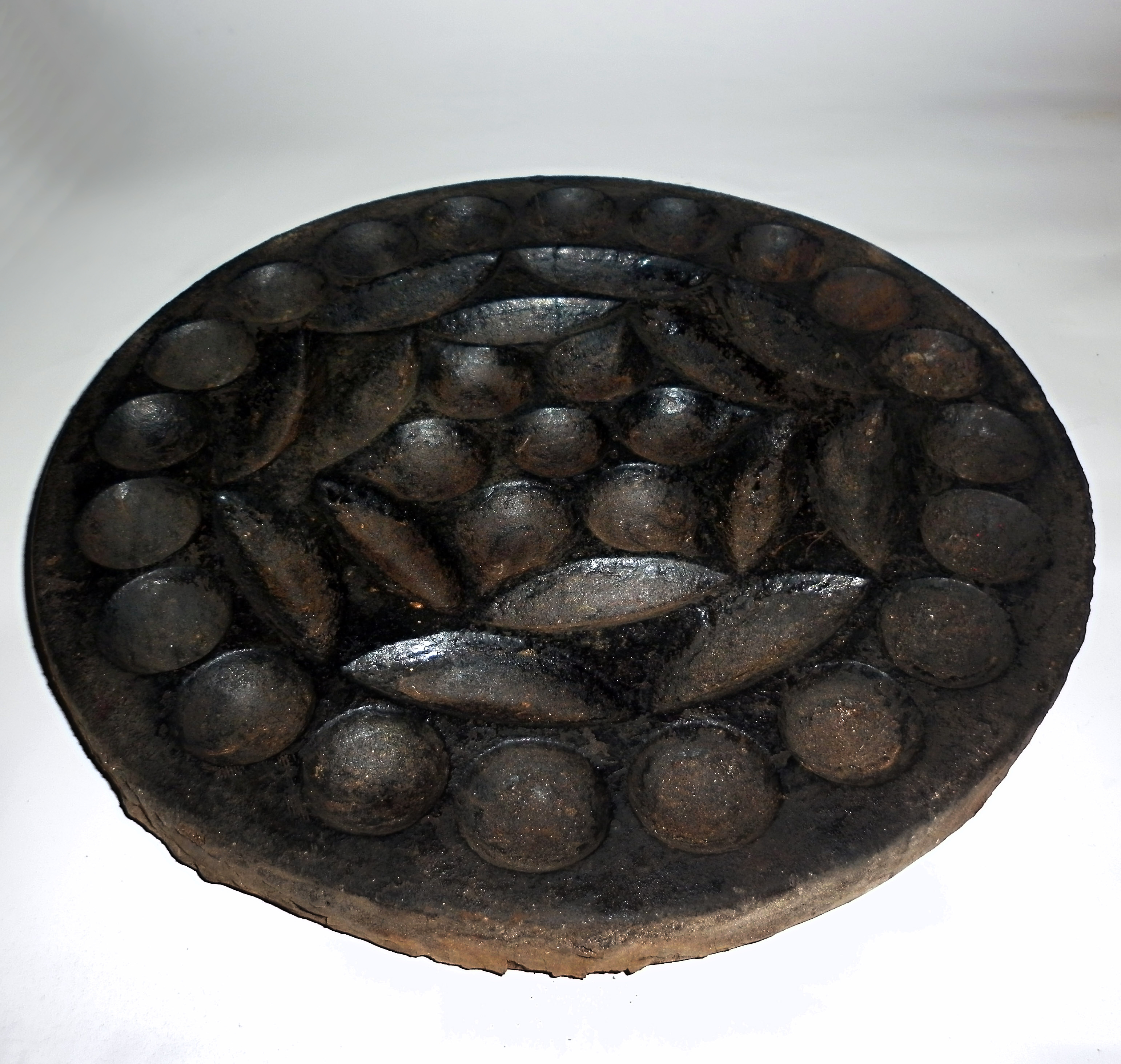 Askaali is a traditional stone made utensil used to make askalu in Distt solan.